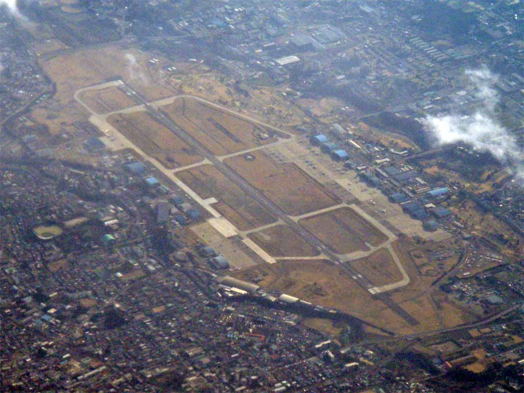 Aerial Photograph of United States Naval Air Facility Atsugi, Japan, on 20 March 2007.